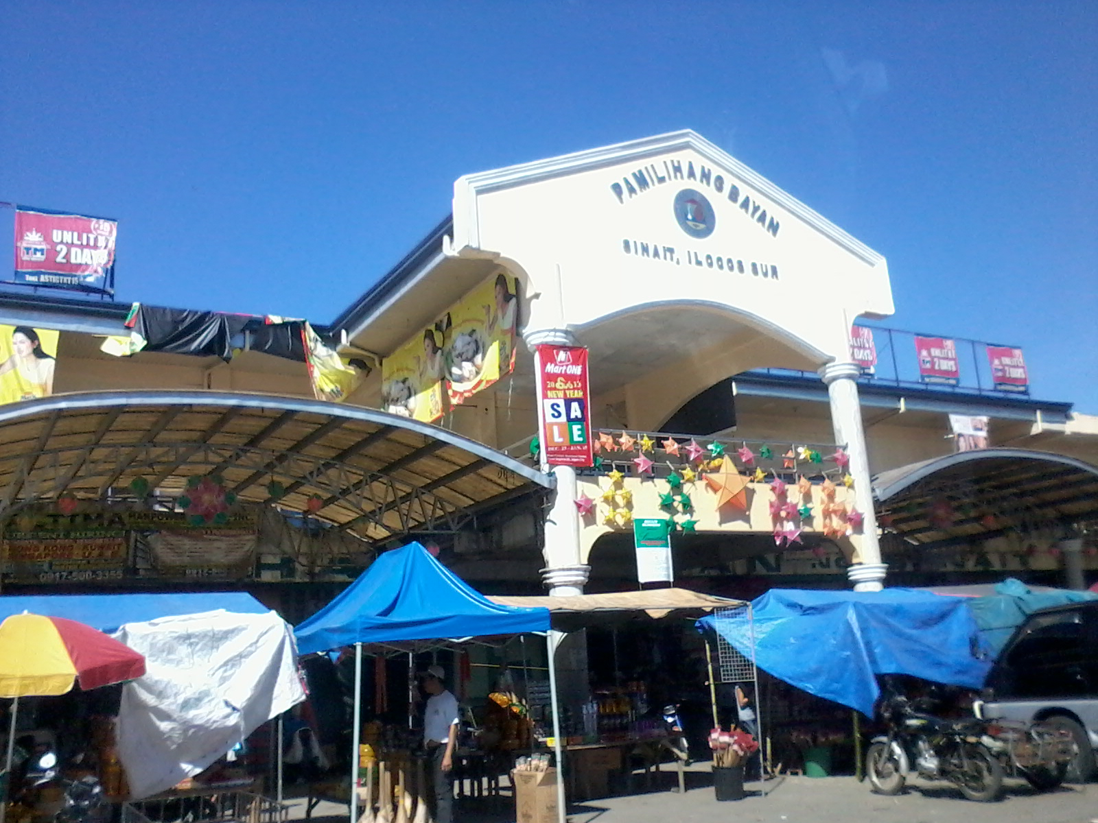 Pamilihang Bayan ng Sinait, Ilocos Sur